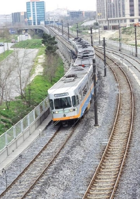 Zeytinburnu tramway